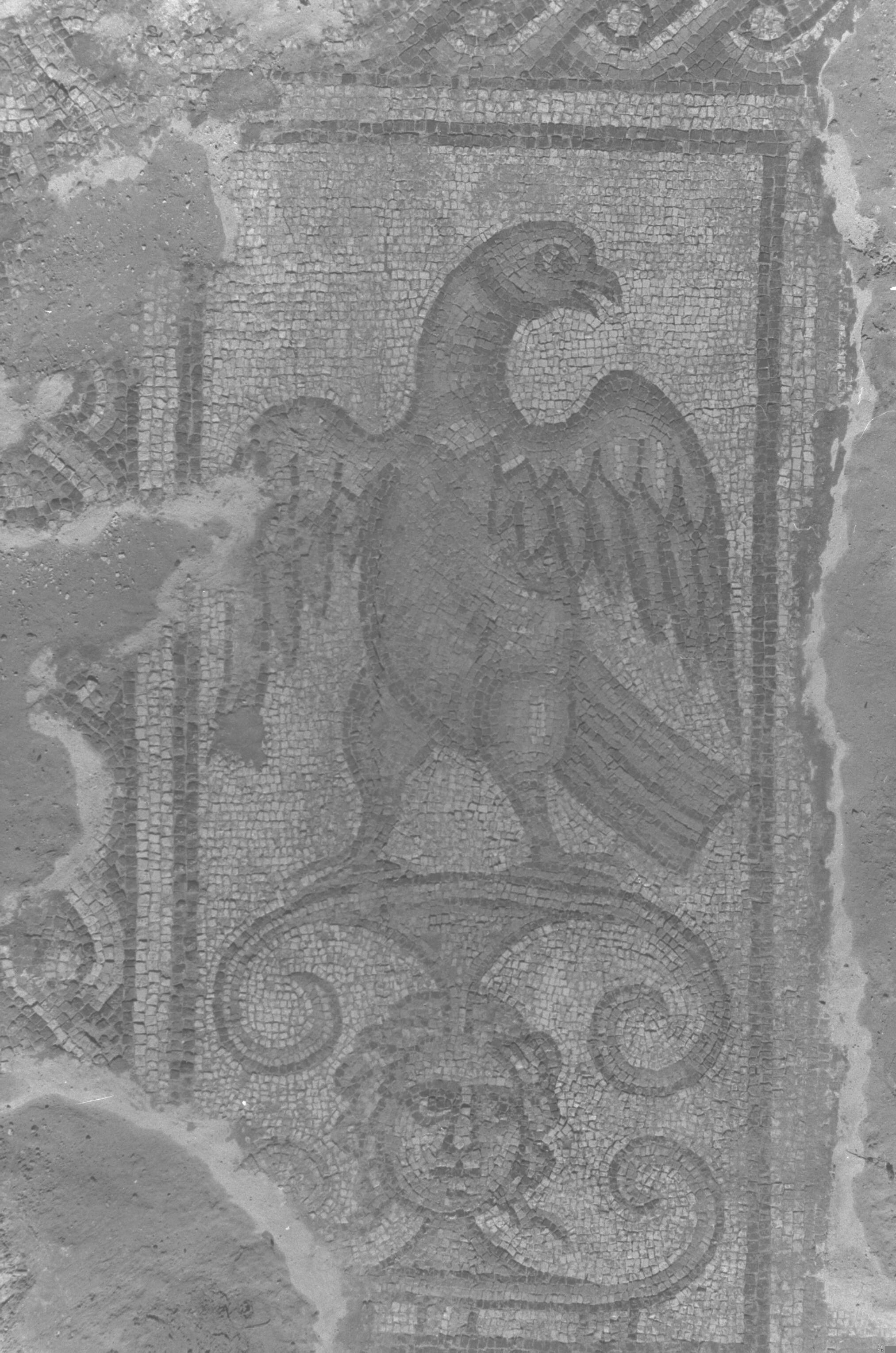 A mosaic of an eagle at the site of a 3rd century synagogue in the village of Yafa an-Naseriyye